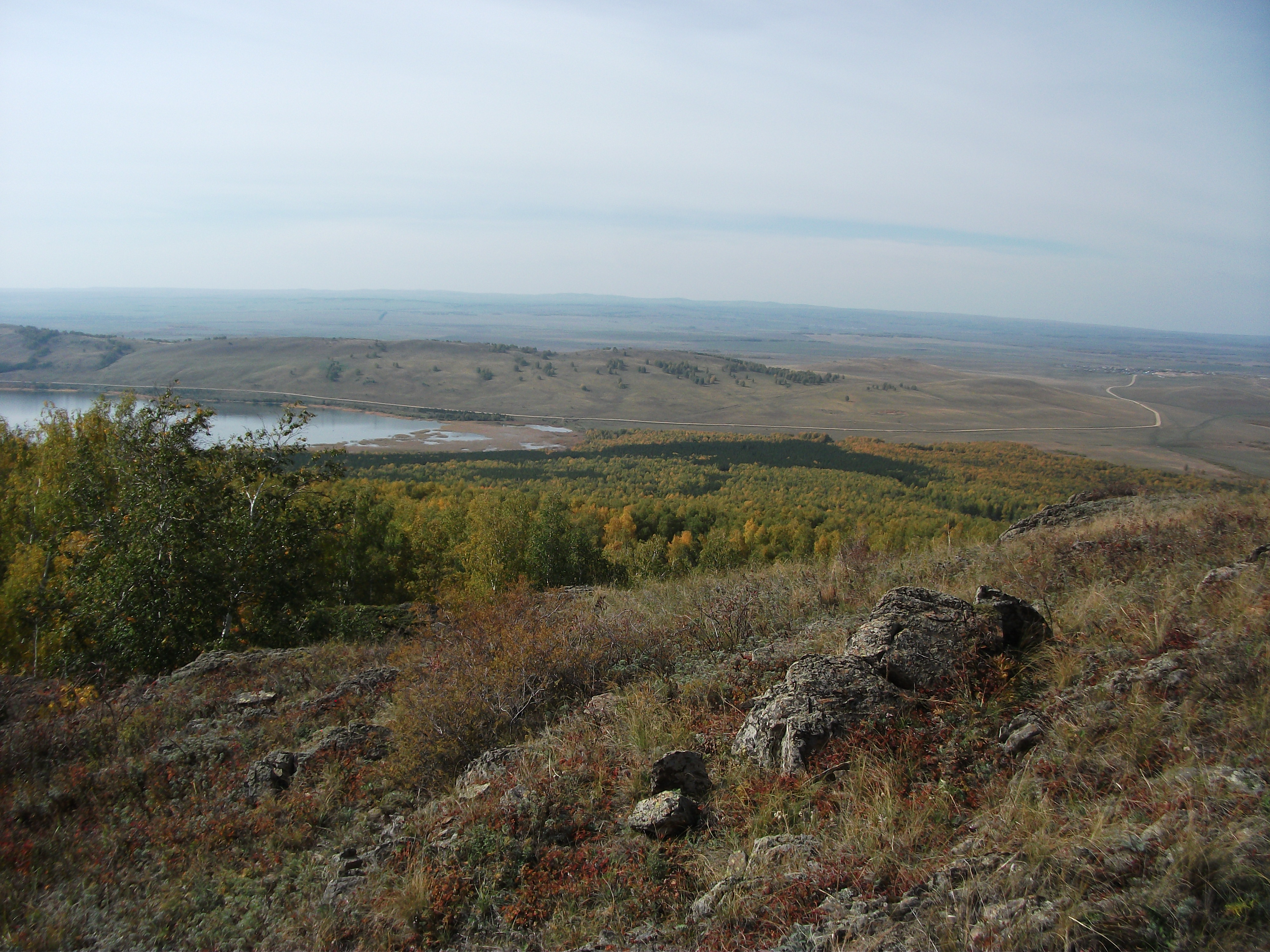 Baymaksky District, Republic of Bashkortostan, Russia